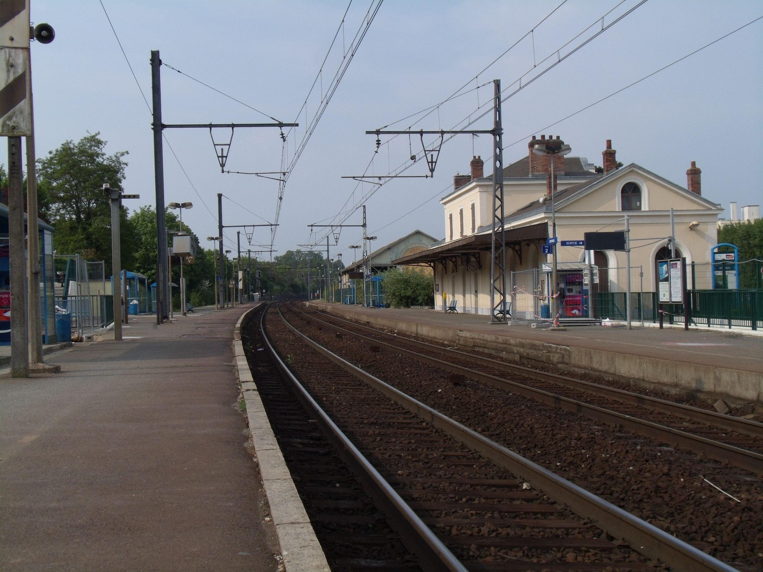 tracks of Epernon station toward Chartres